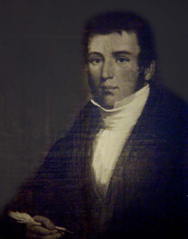 Portrait of Franklin Jackes